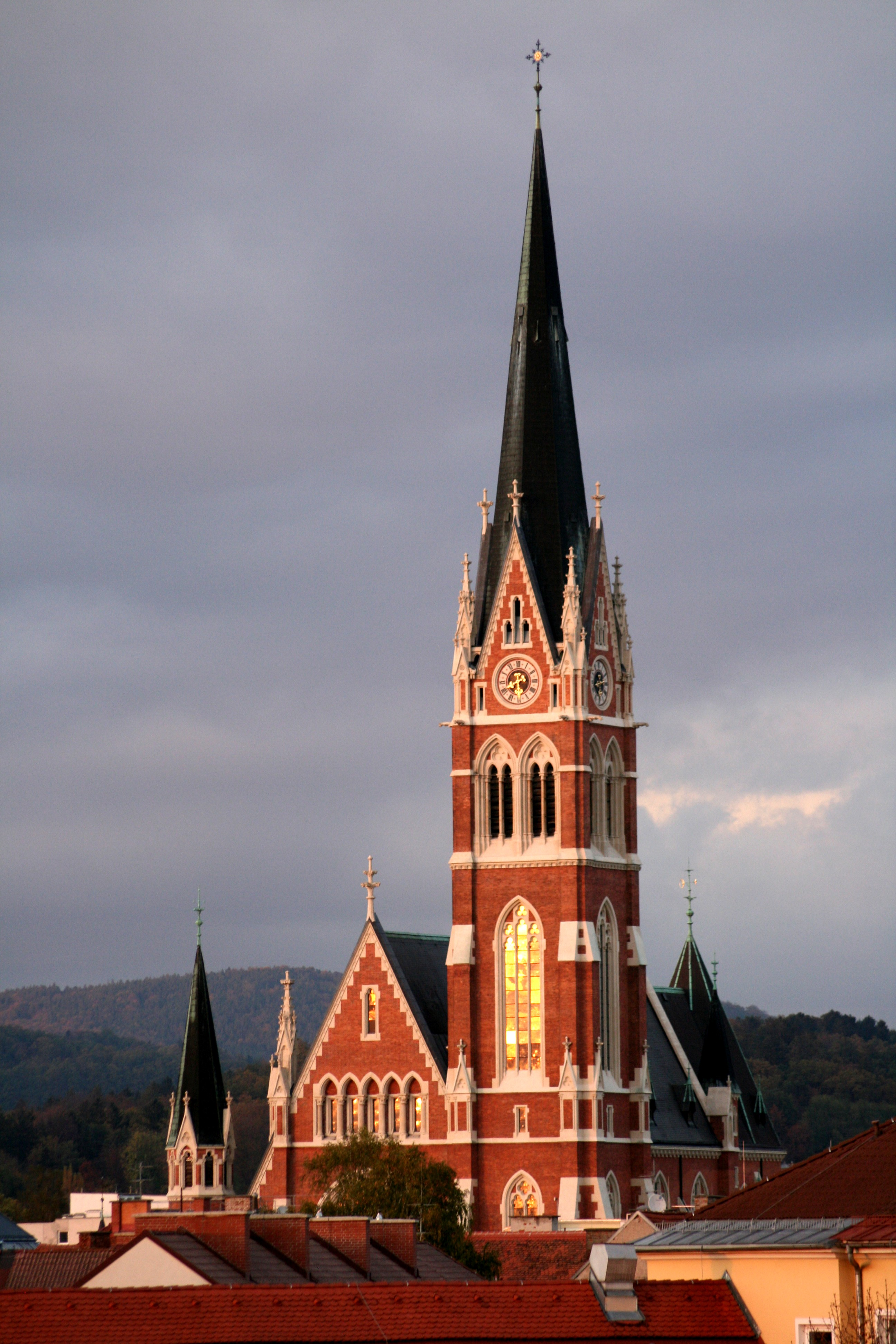 "Herz-Jesu-Kirche" (sacred heart church) in Graz, Austria, Europe